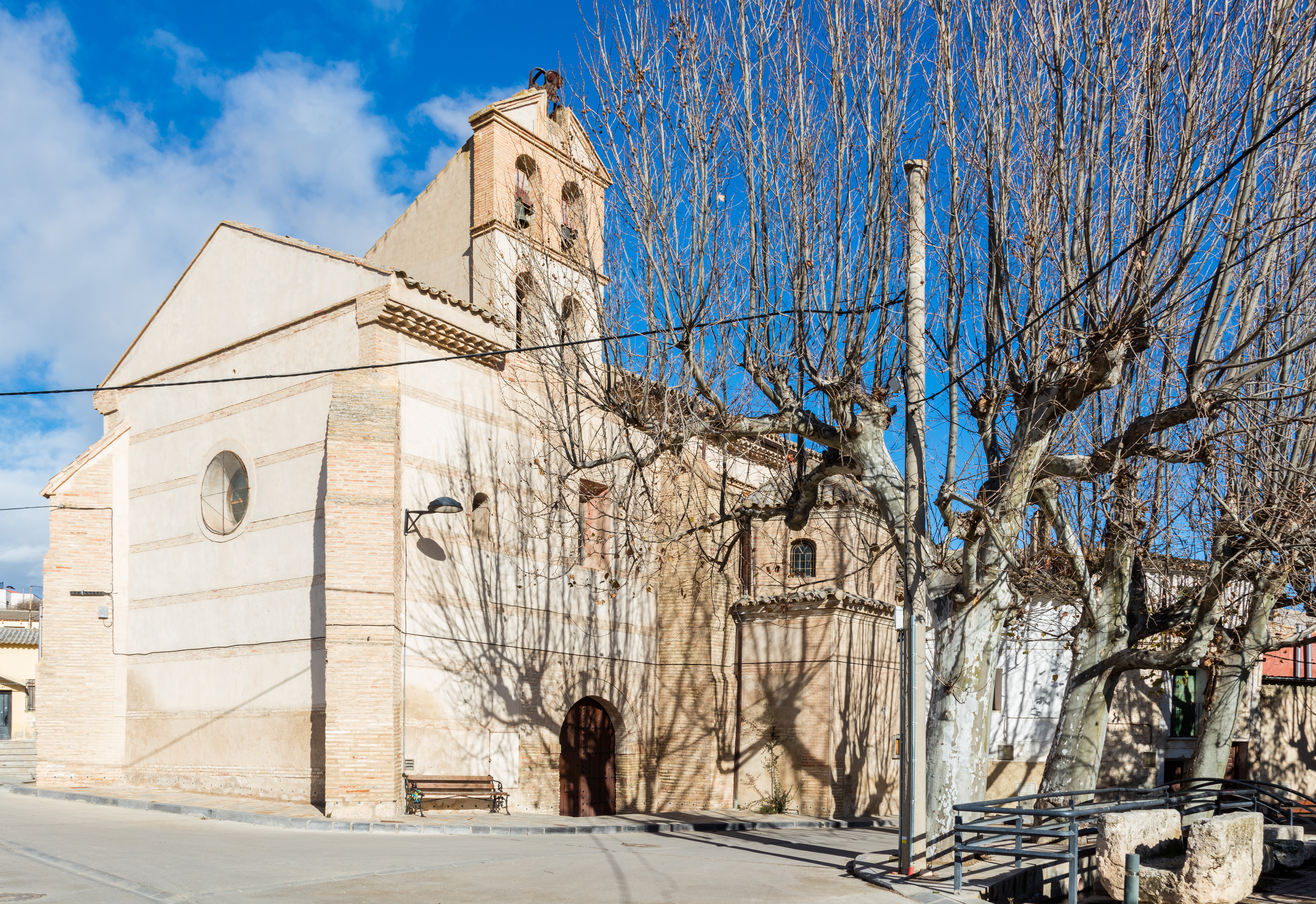 Church of Santiago Apóstol, Albeta, Zaragoza, Spain